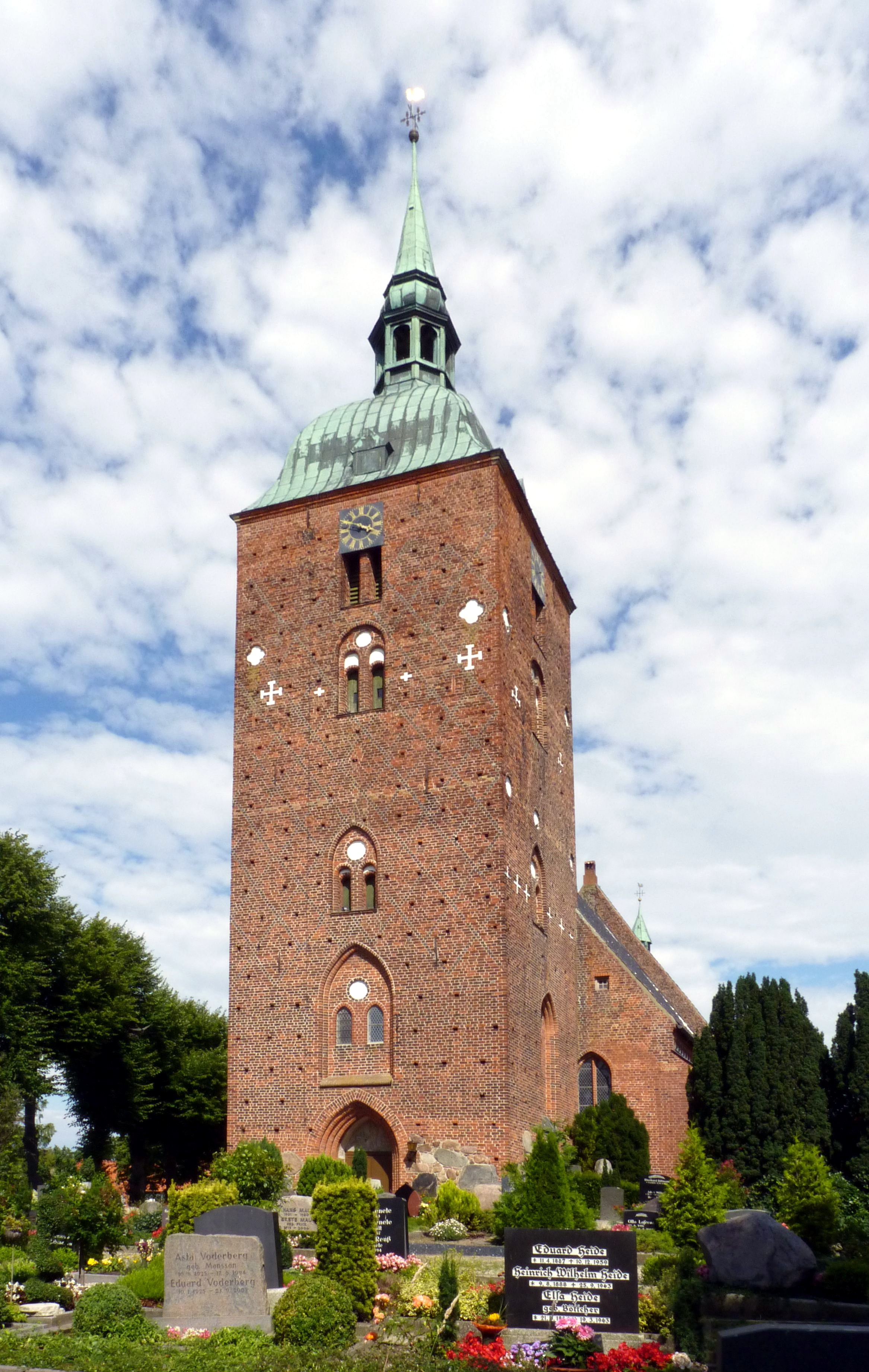 The church St. Nikolai in Burg on the island Fehmarn.